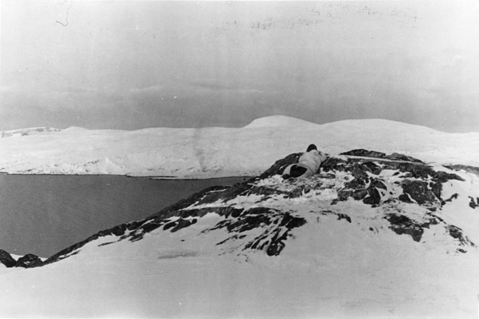 A Norwegian guard watching the movements of the Germans.It was reported to Norwegian Headquarters in eastern Finnmark that the civilian population on the island of Sørøya in Western Finnmark was living under very difficult conditions due to the complete destruction by the Germans of everything on the Island. An expedition was set to the island and Norwegian forces evacuated a number of civilians eastwards and took care of the population until the evacuation could take place. In the middle of the February four British destroyers arrived at the island and evacuated the rest of the civilian population.